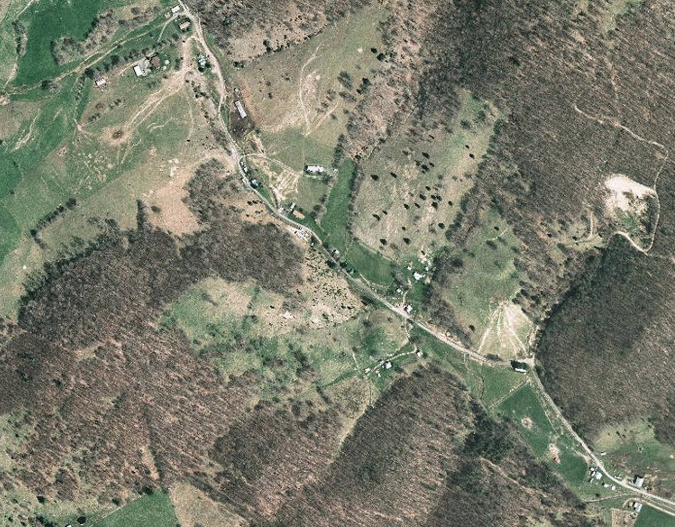 Aerial view of Possum Trot, Highland County, Virginia. U.S. 220 is a short distance out of the image to the right